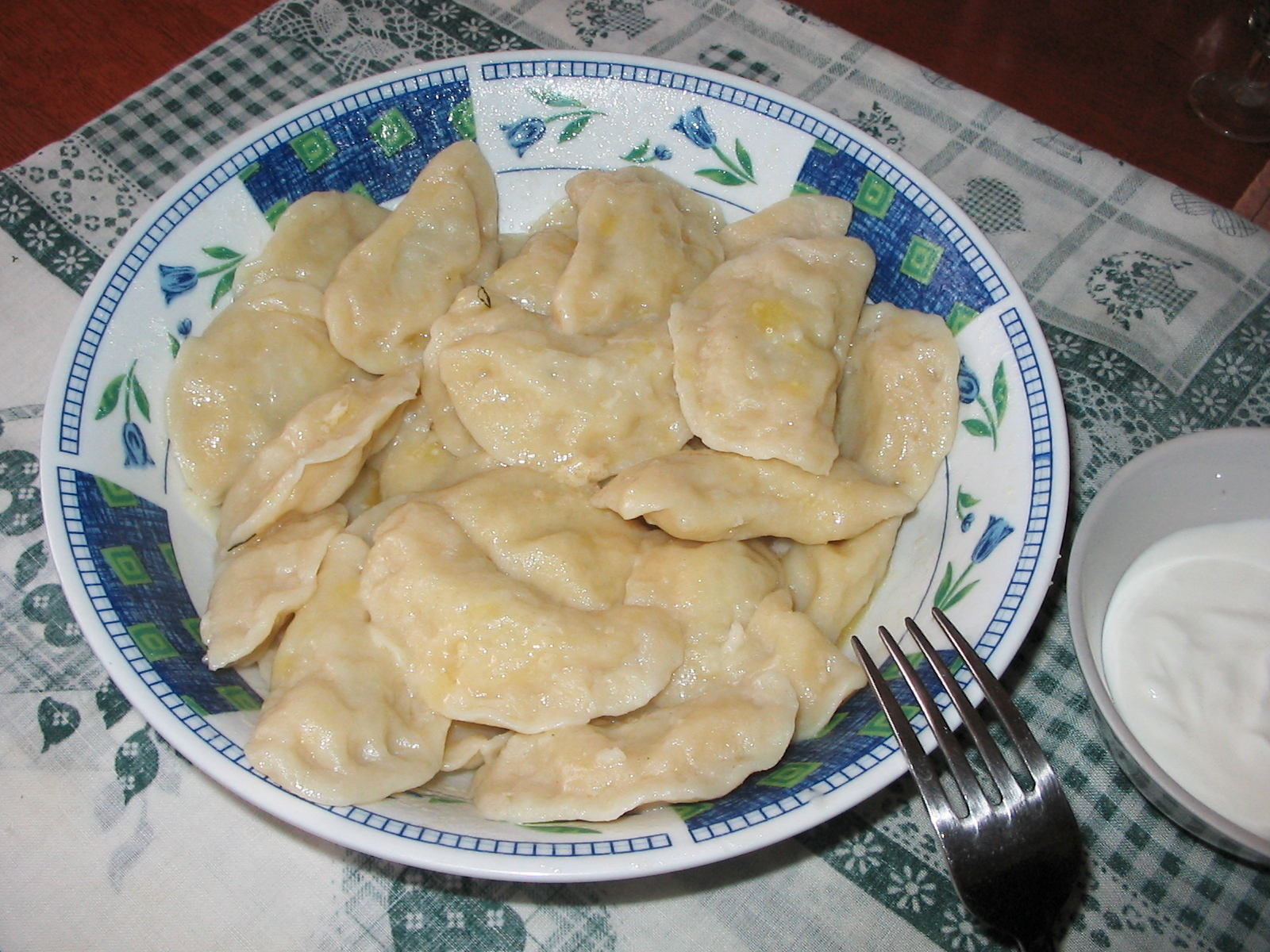 Vareniki filled with mashed potatoes smeared with melted butter. Smetana (sour cream) served as a dip